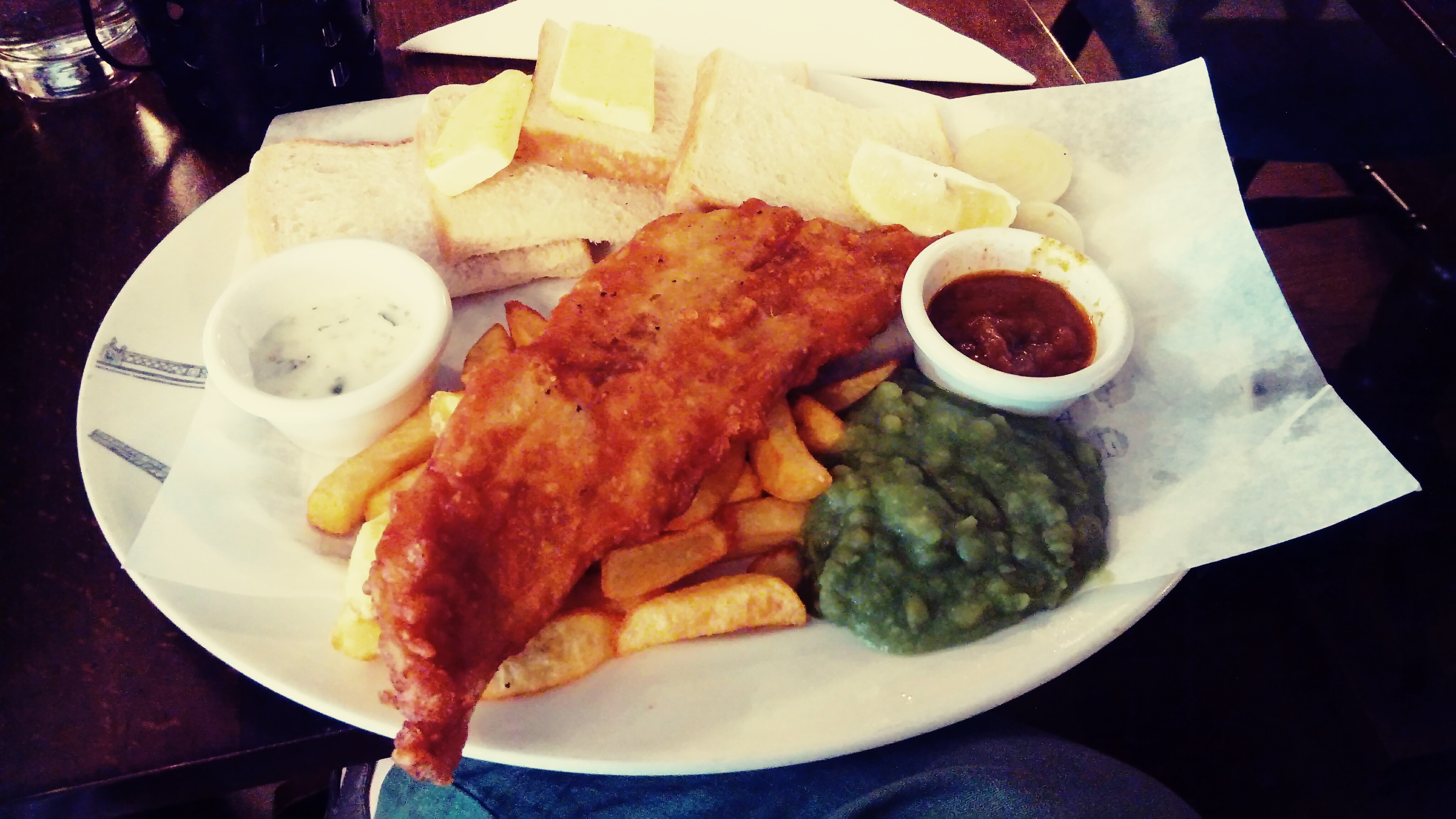 Plate of fish and chips in a restaurant in London.